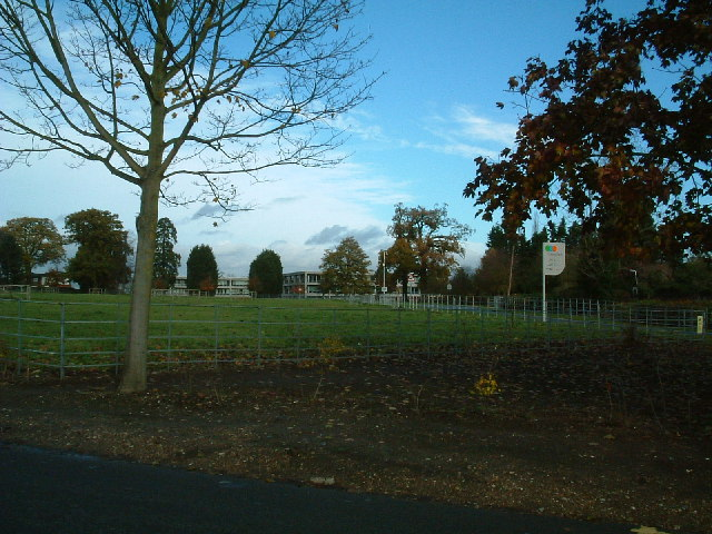 Hayes Park. The Head Office for Heinz is located here.